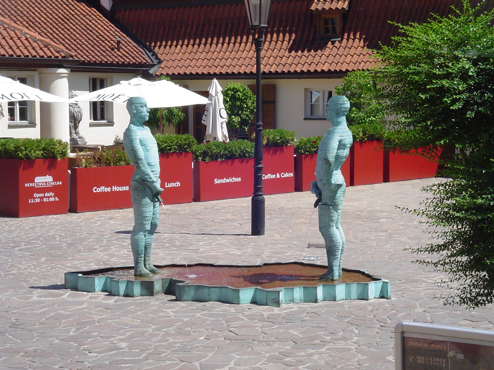 David Černý statues in Mala Strana District, Prague, on Cihelna Street. Outside of the Frank Kafka museum